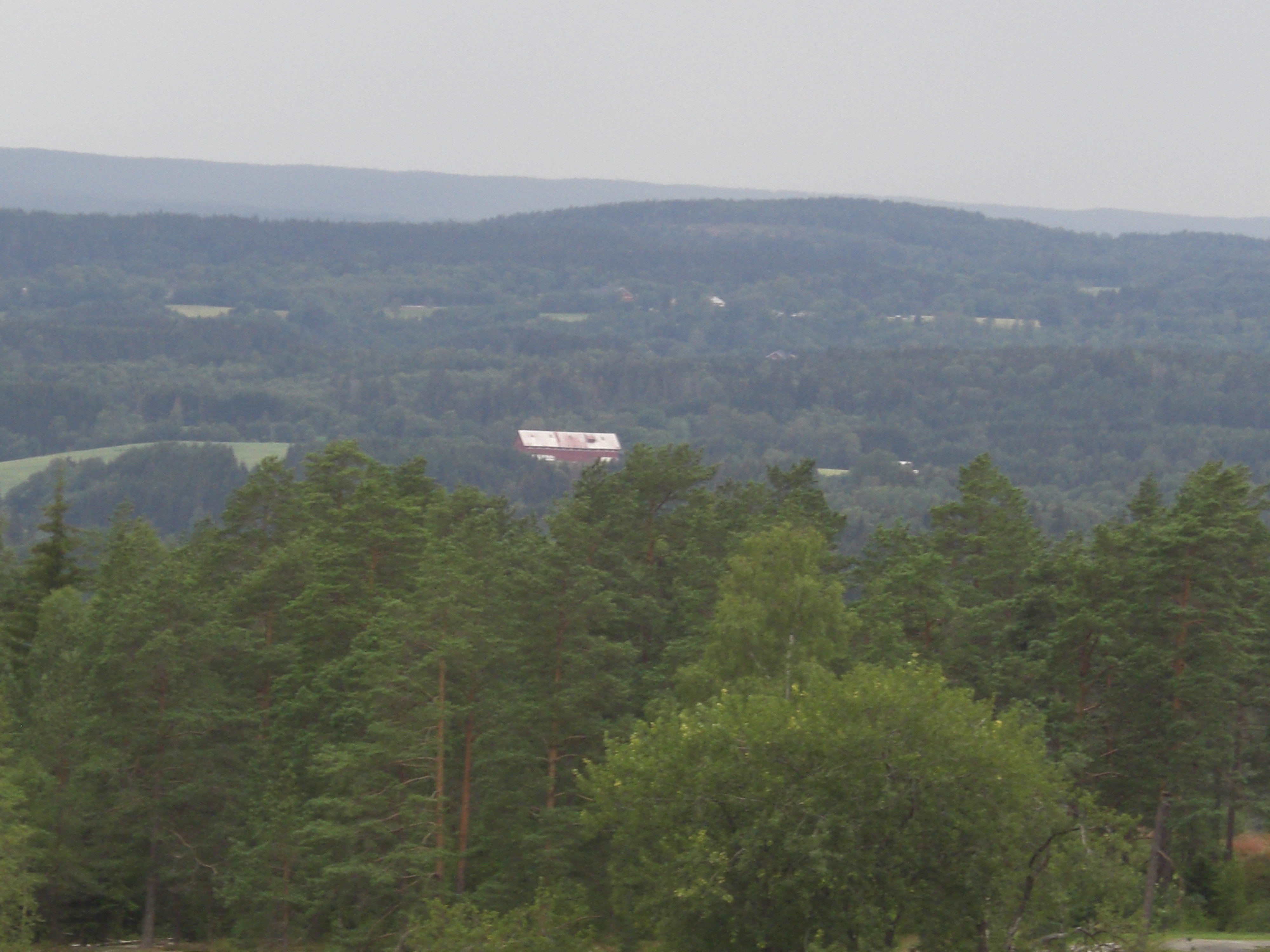 Torkildsrudåsen, Eidsberg